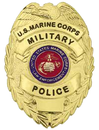 USMC Military Police Badge